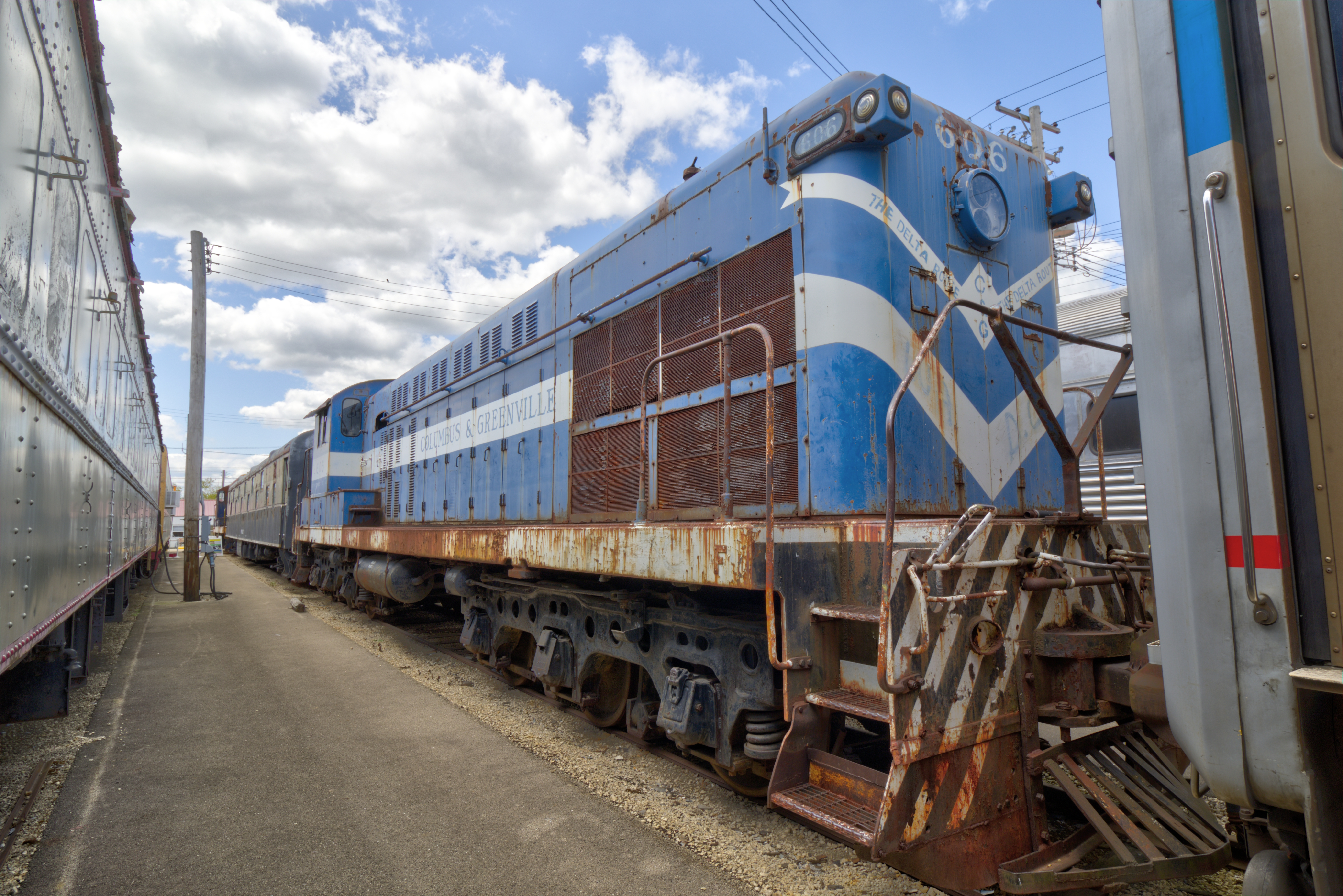 The preserved Columbus & Greenville Railway number 606, viewed from the engineer's side front corner, at Illinois Railway Museum